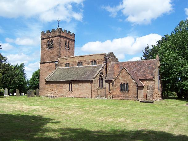 St Chad's parish church, Wishaw, Warwickshire, seen from the south